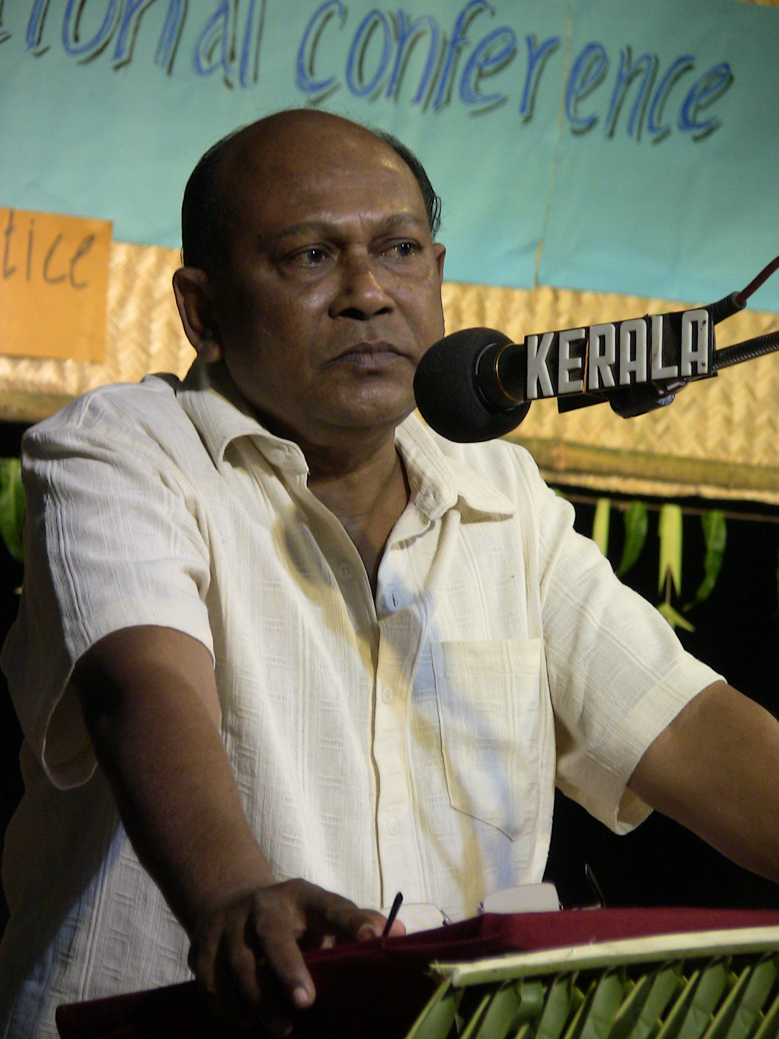 Sirithunga Jayasurya delivering his speech in the Conference on 'South Asia: Peace Justice & Democracy' in ViBGYOR Festival 2010